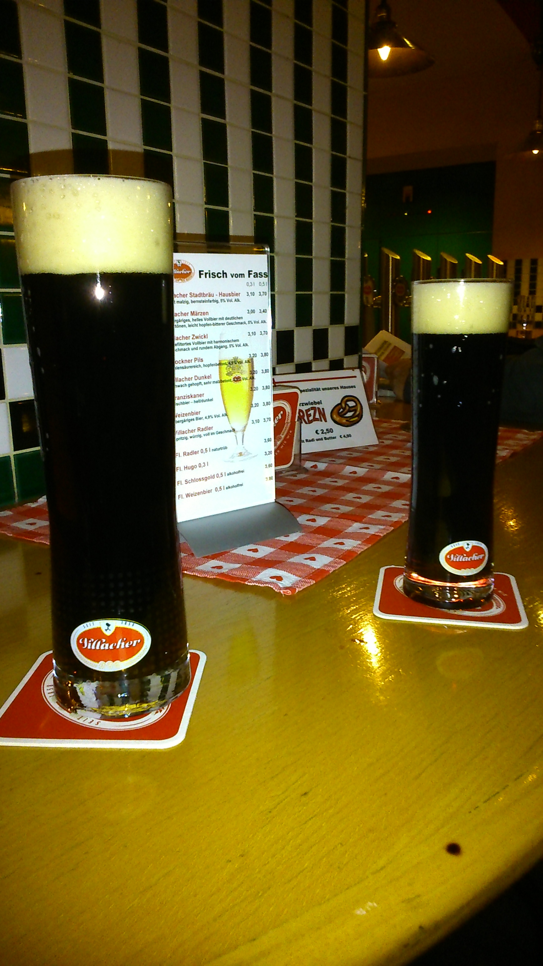 In this picture you see two pints of dark villacher beer at the brauhof (tavern)